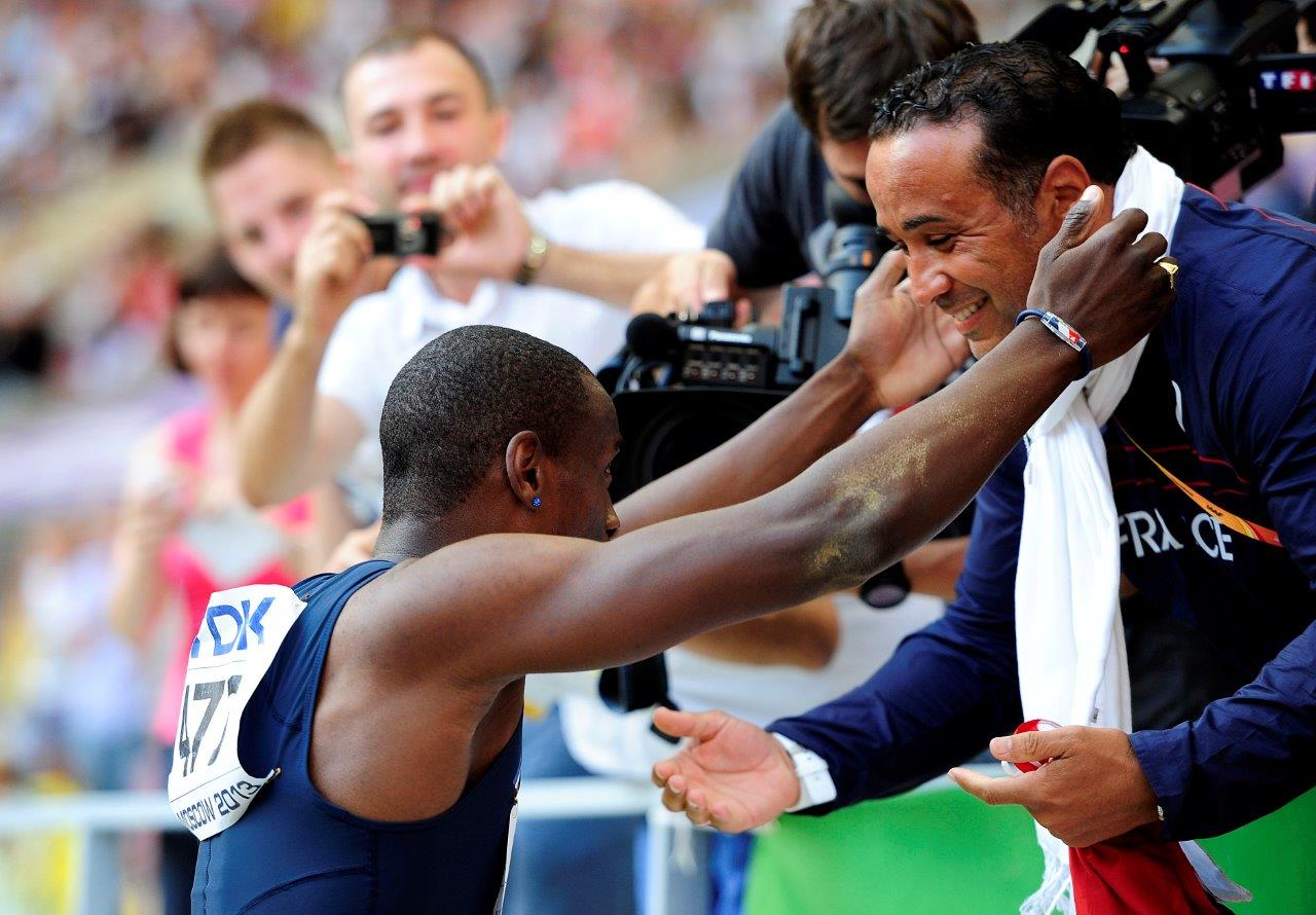 Teddy Tamgho et Ghani Yalouz aux Championnats du Monde 2013.